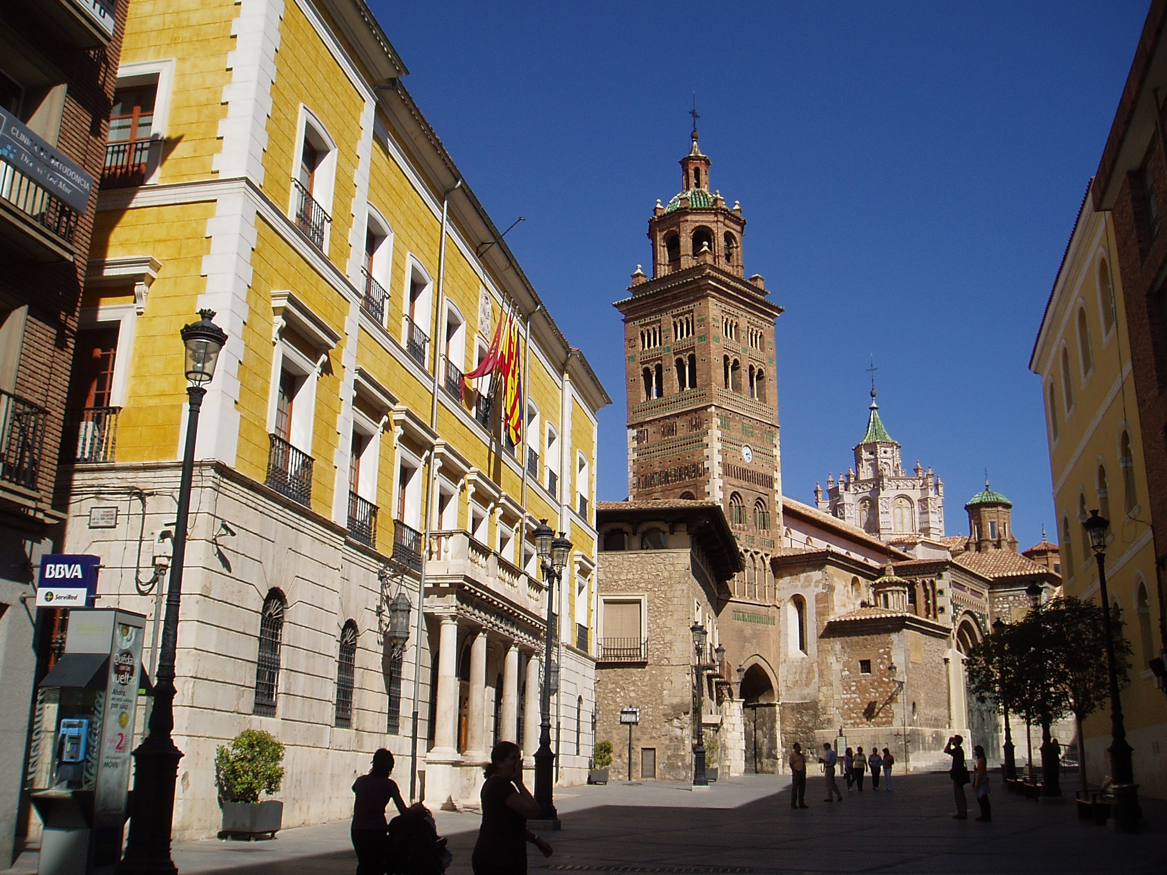 City Hall (yellow building) and Cathedral. Teruel. Spain